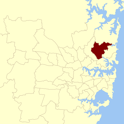 Location of the New South Wales Legislative Assembly electoral district within Sydney in New South Wales. Reference: [1]